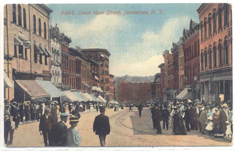 Postcard: "Down Main Street", Jamestown, New York, 1914. Postcard view. Description: Web page says "1914" is date of postcard, nothing further